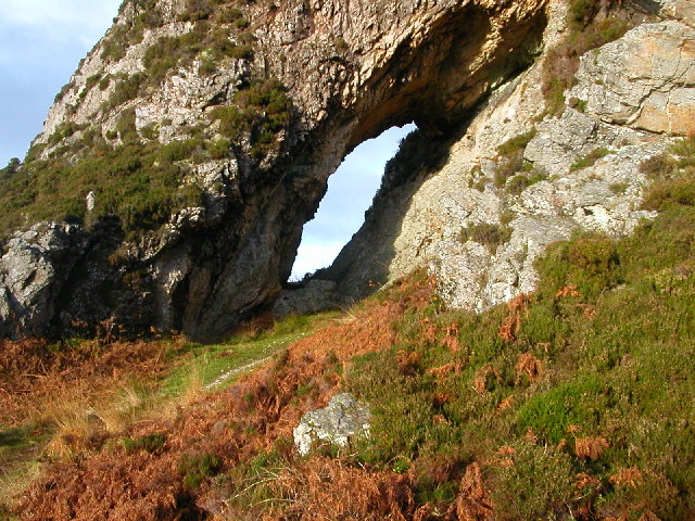 Clach Thoull - The Holed Stone. Apparently the entrance to the nether regions under the sea.